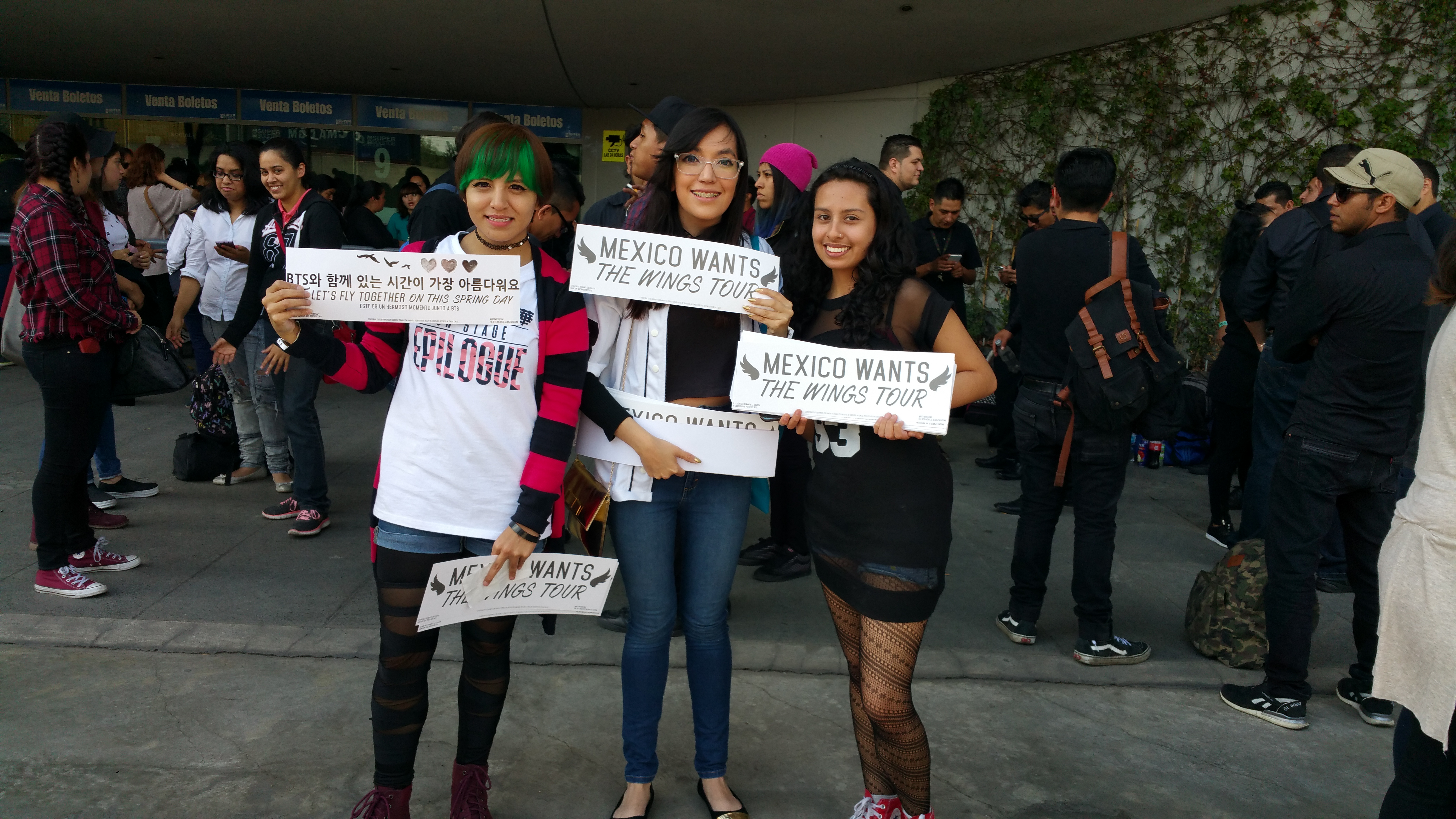 KCON Mexico 2017, Arena Ciudad de México, March 17-18, BTS fans with banners asking for 2017 BTS Live Trilogy Episode III: The Wings Tour (in Brazil, Chile and U.S. in March), to come to Mexico.